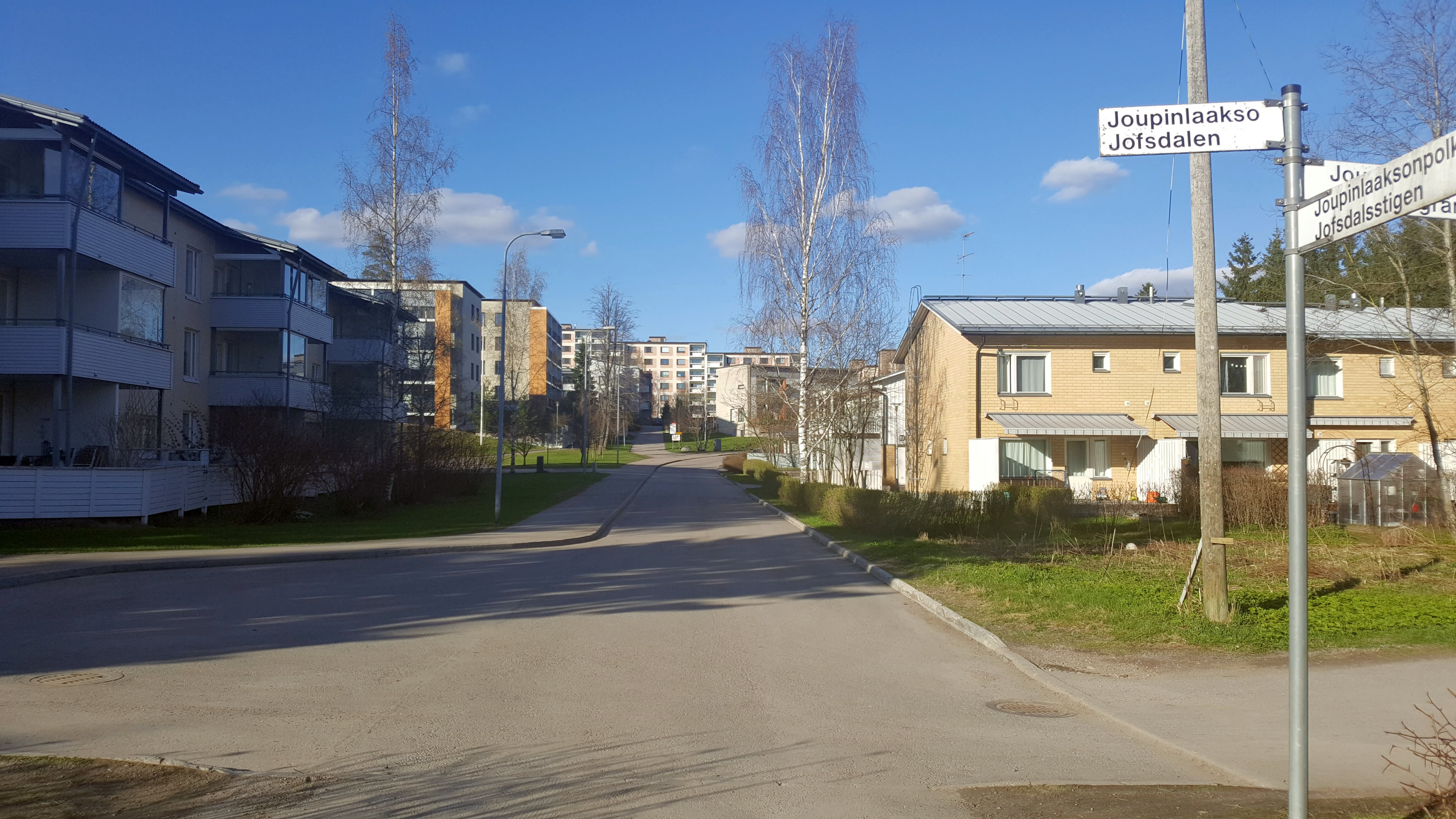 The Jouppi neighbourhood in Espoo.